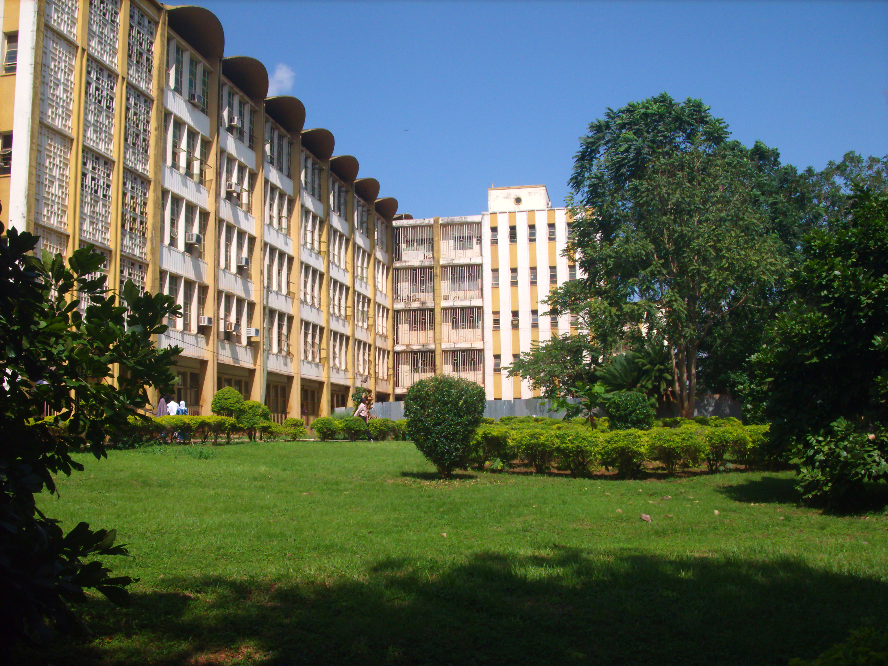 CC BY Regents of the University of Michigan